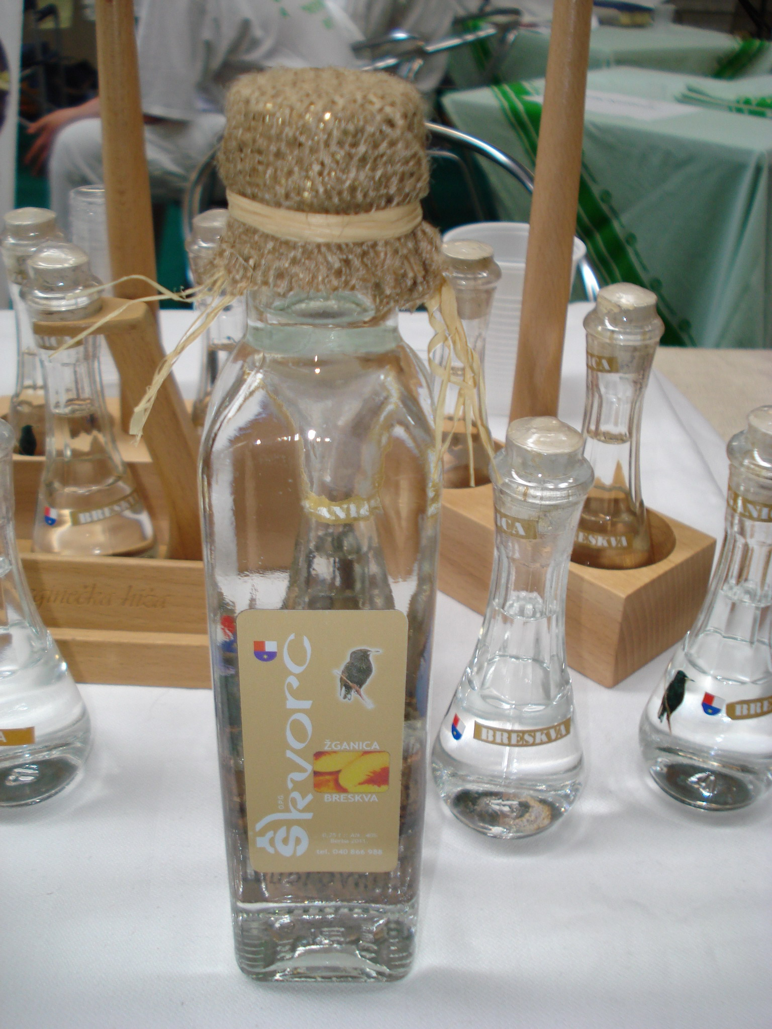 Peach rakia (brandy), alcoholic beverage, made in Medjimurje County (Croatia)